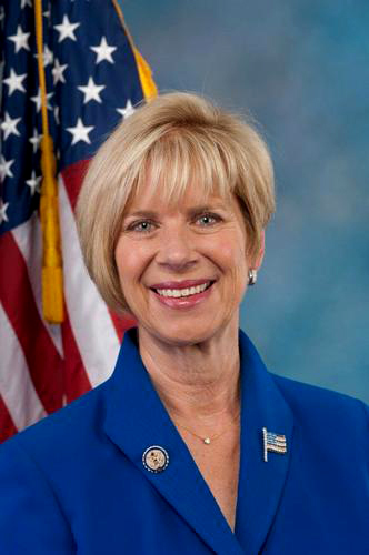 Official portrait of Congresswoman Janice Hahn (D-CA).